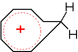 Homotropylium ion